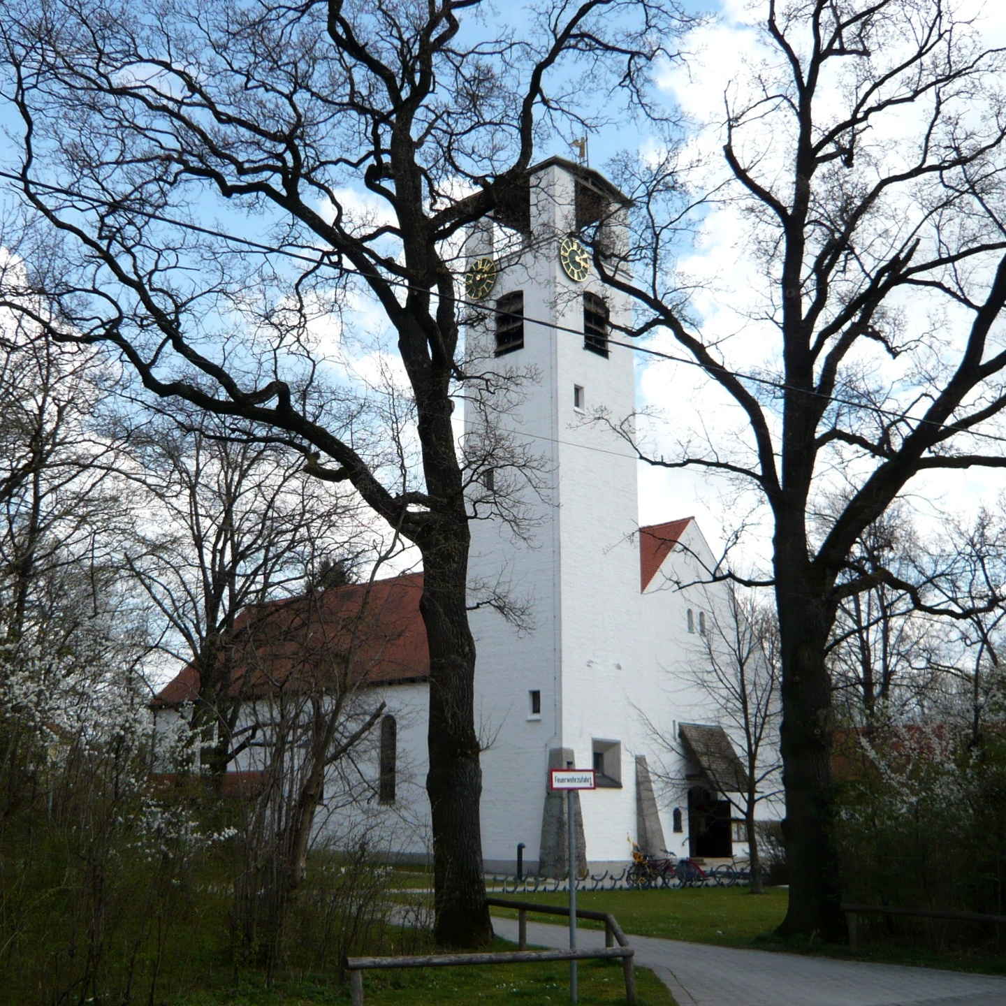 Church "St. Raphael" in Munich